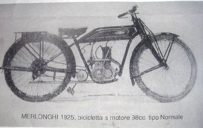 Advertising for the Merlonghi 98 cc motorcycle.